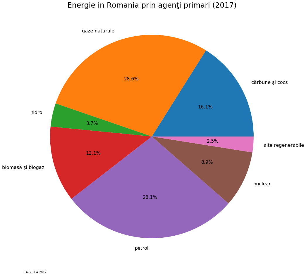 Energie primara in Romania dupa AIE (2017)